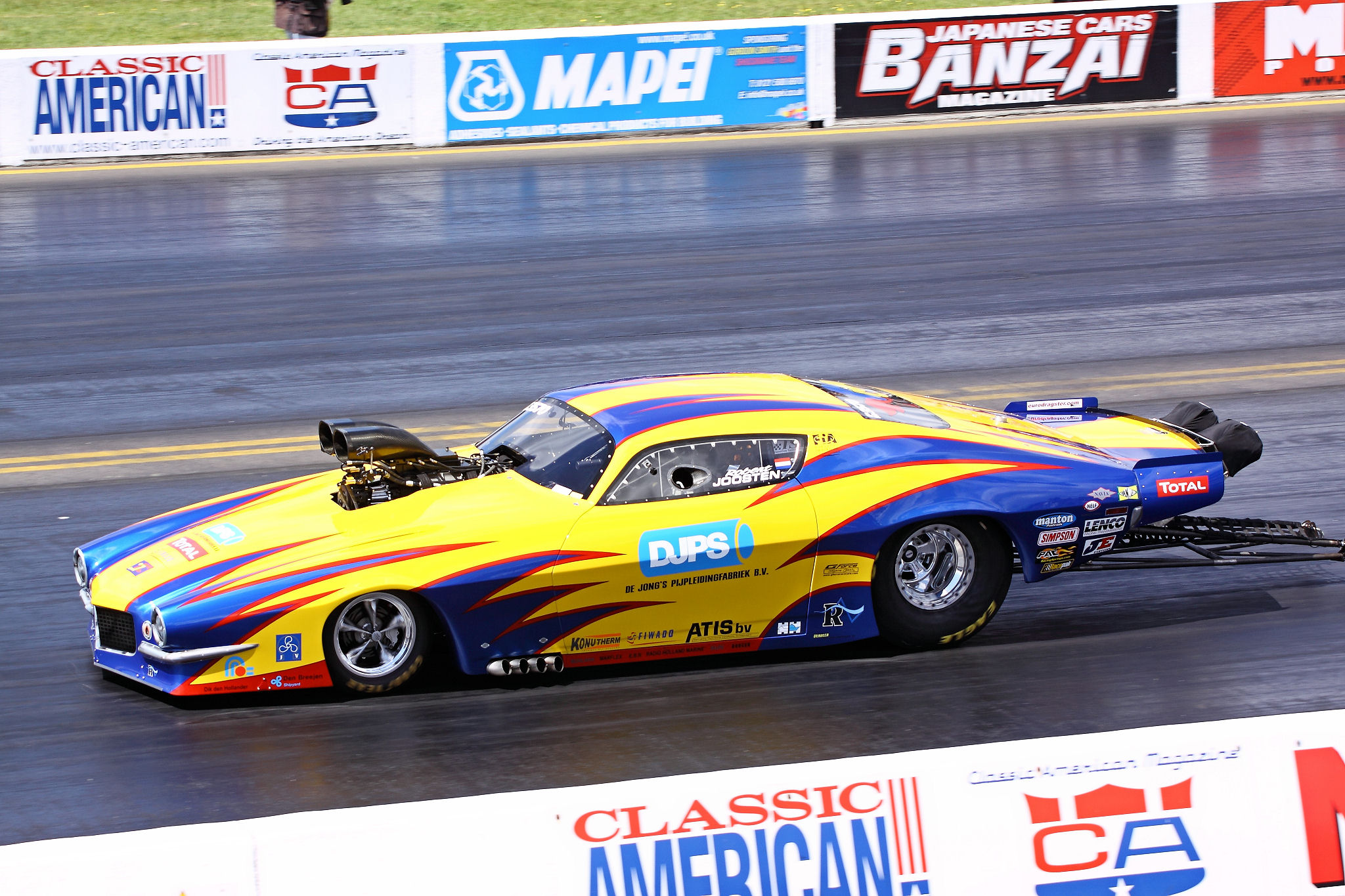 FIA / MSA Pro Mod - Camaro - Santa Pod 2010 - Driver: Henri Joosten (NED)